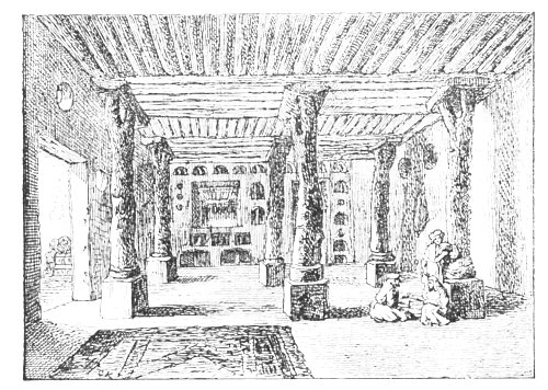 Austen Henry Layard (1817-1894): Sketch taken from a house inhabited by Yezidis,in the district of Upper Mesopotamia called Sinjar.